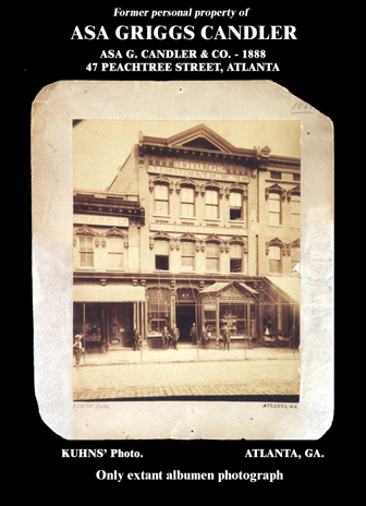 Shown is the first publication ever of the full image taken in April of 1888 by KUHNS' Photo outside the business establishment of Asa G. Candler & Co., 47 Peachtree Street, Atlanta, GA.